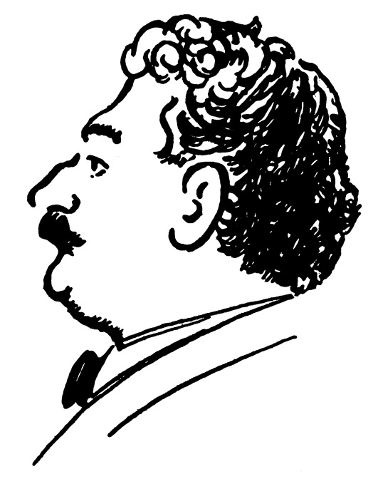 Ludwig Lore, American radical political activist and newspaper publisher